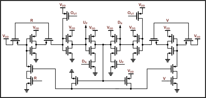 A schematic of a Pass-Transistor Phase Frequency Detector implemented in CMOS. This is commonly used in a Charge Pump Phase Locked Loop (PLL).